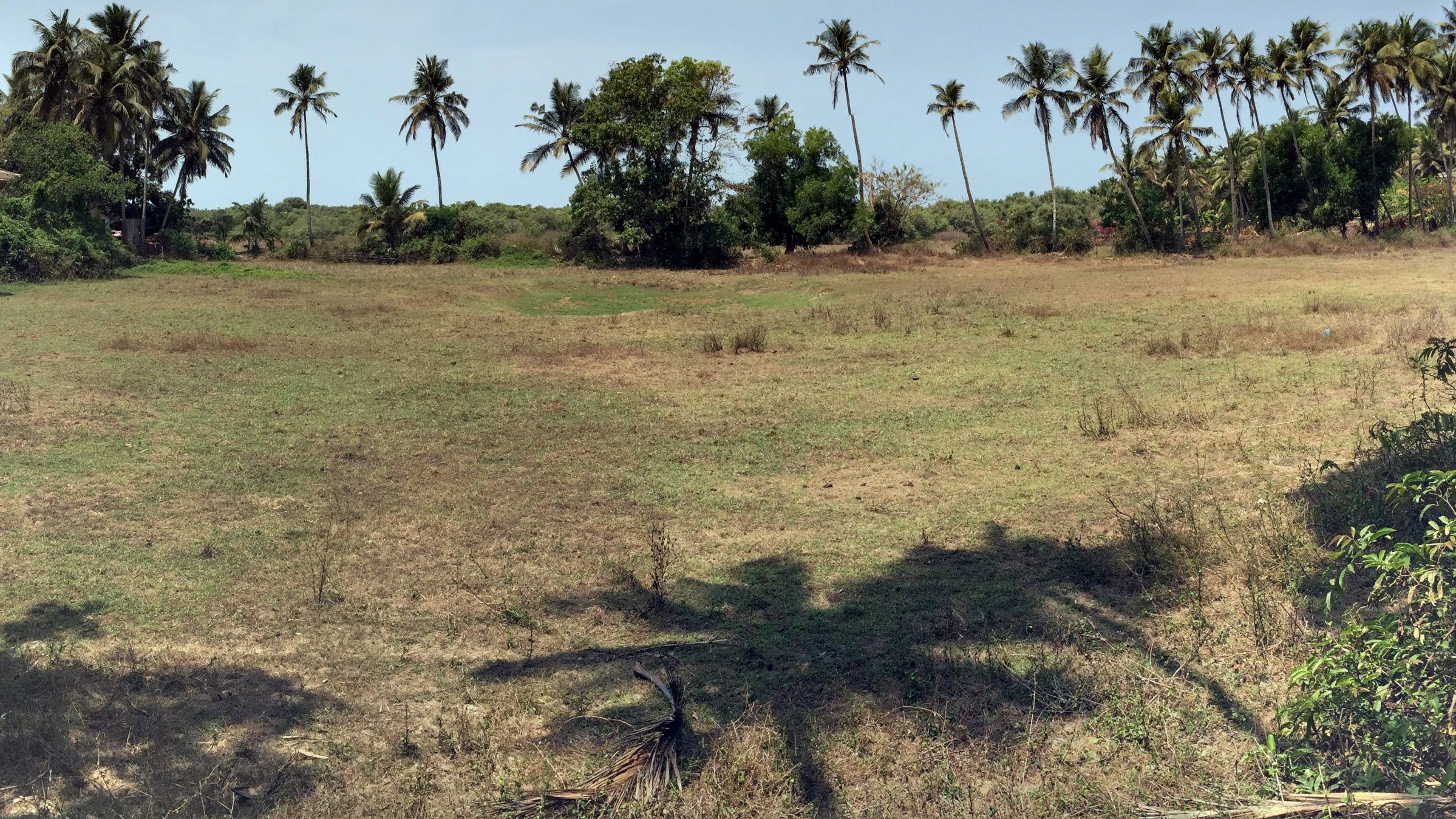 Panoramic view of rural scenery in Palmar Grande ward, Chinchinim village, Goa.